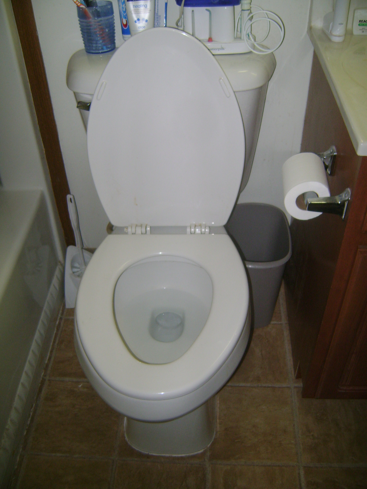 Modern white toilet in senior apartment